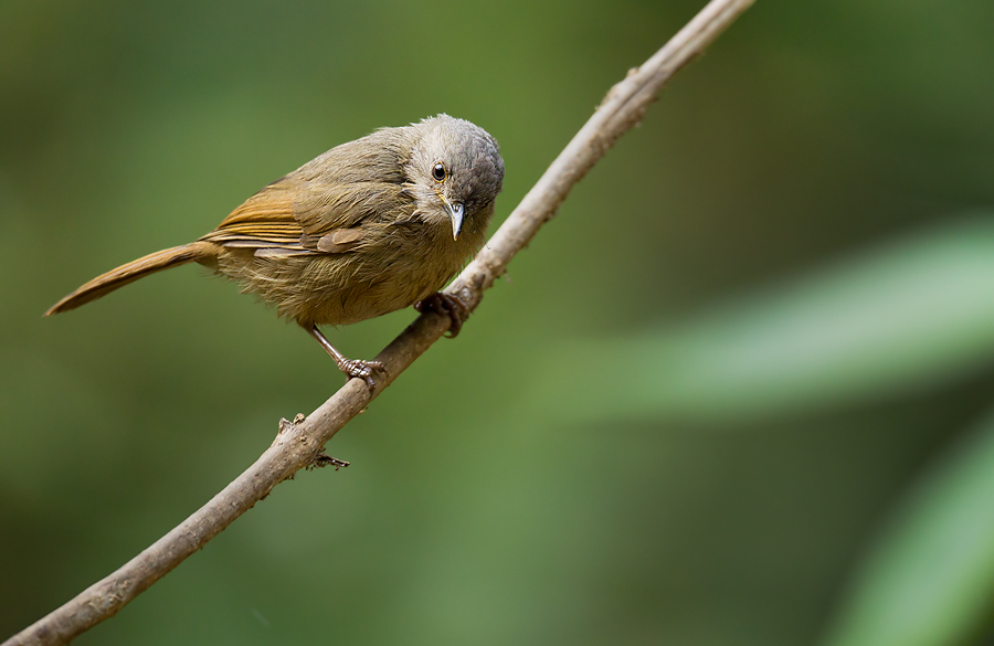 A Brown cheeked fulvetta at Dandeli, India